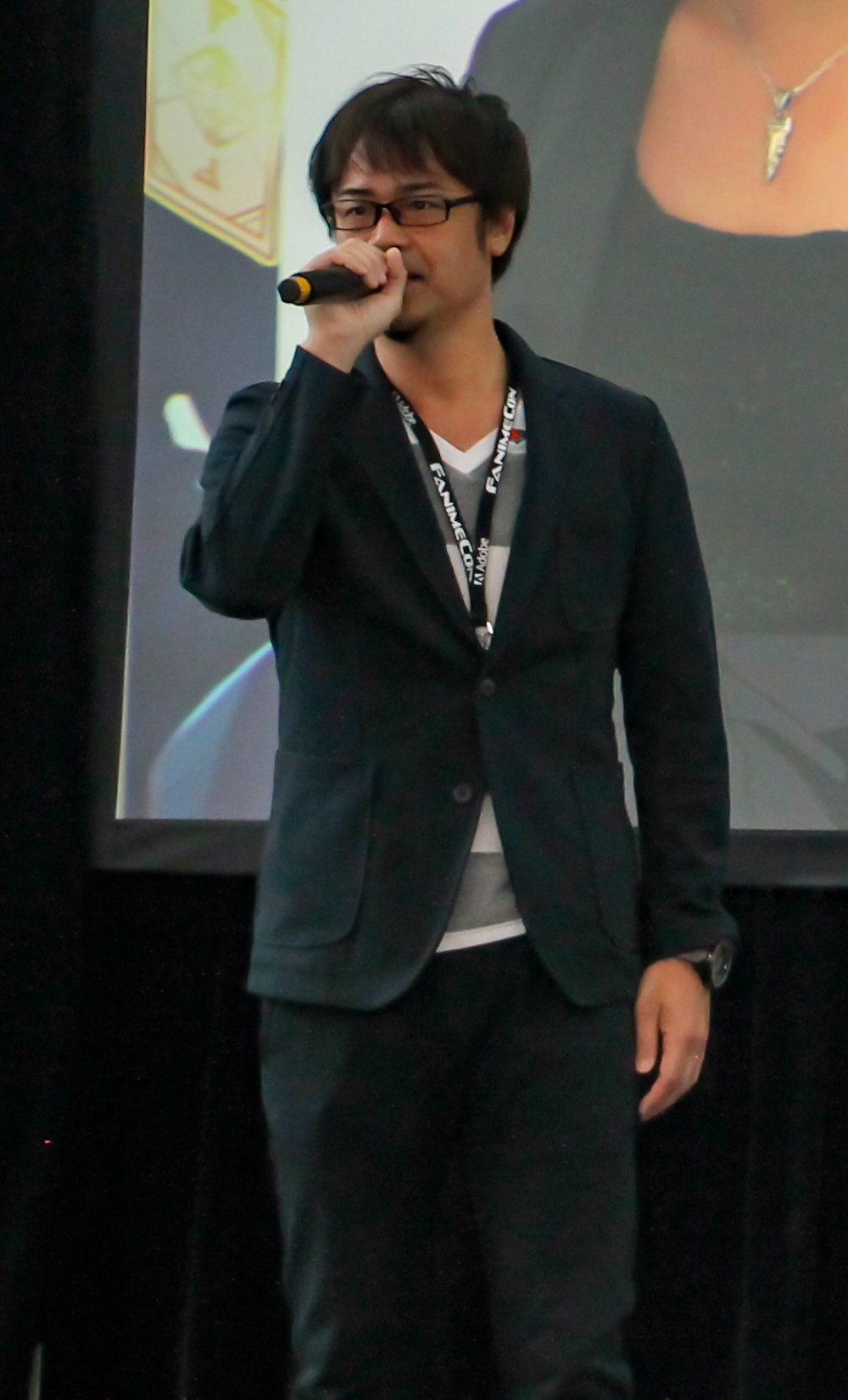 FanimeCon 2017 126 Hideo Ishikawa